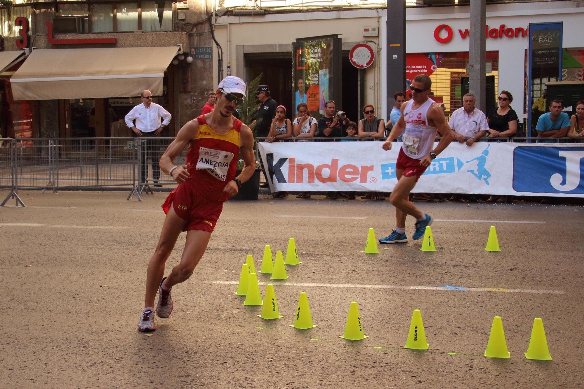 5-Luis Alberto Amezcua (ESP) in the 11th European Cup Race Walking Murcia ESP 17 May 2015